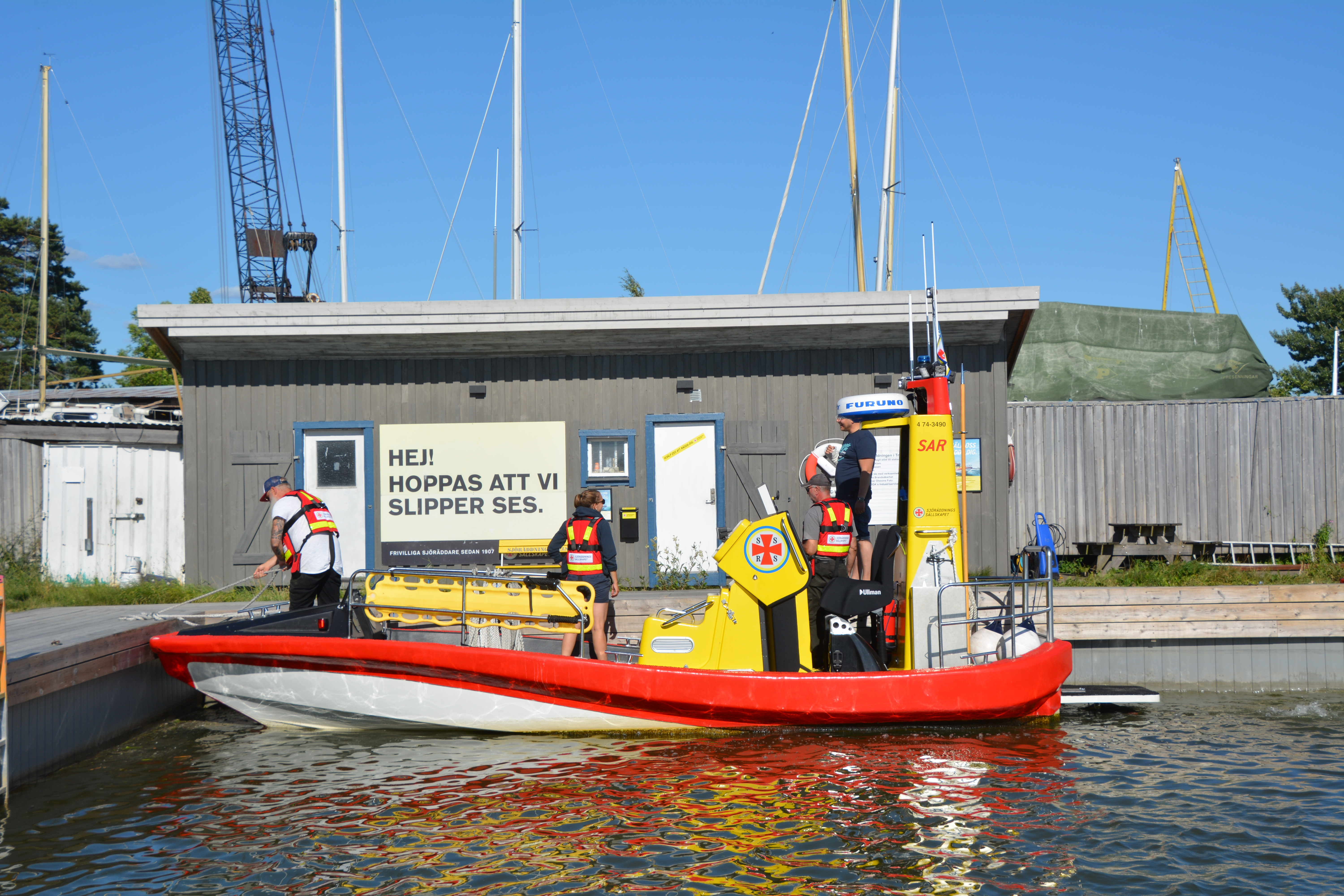 Trosa räddningsstation